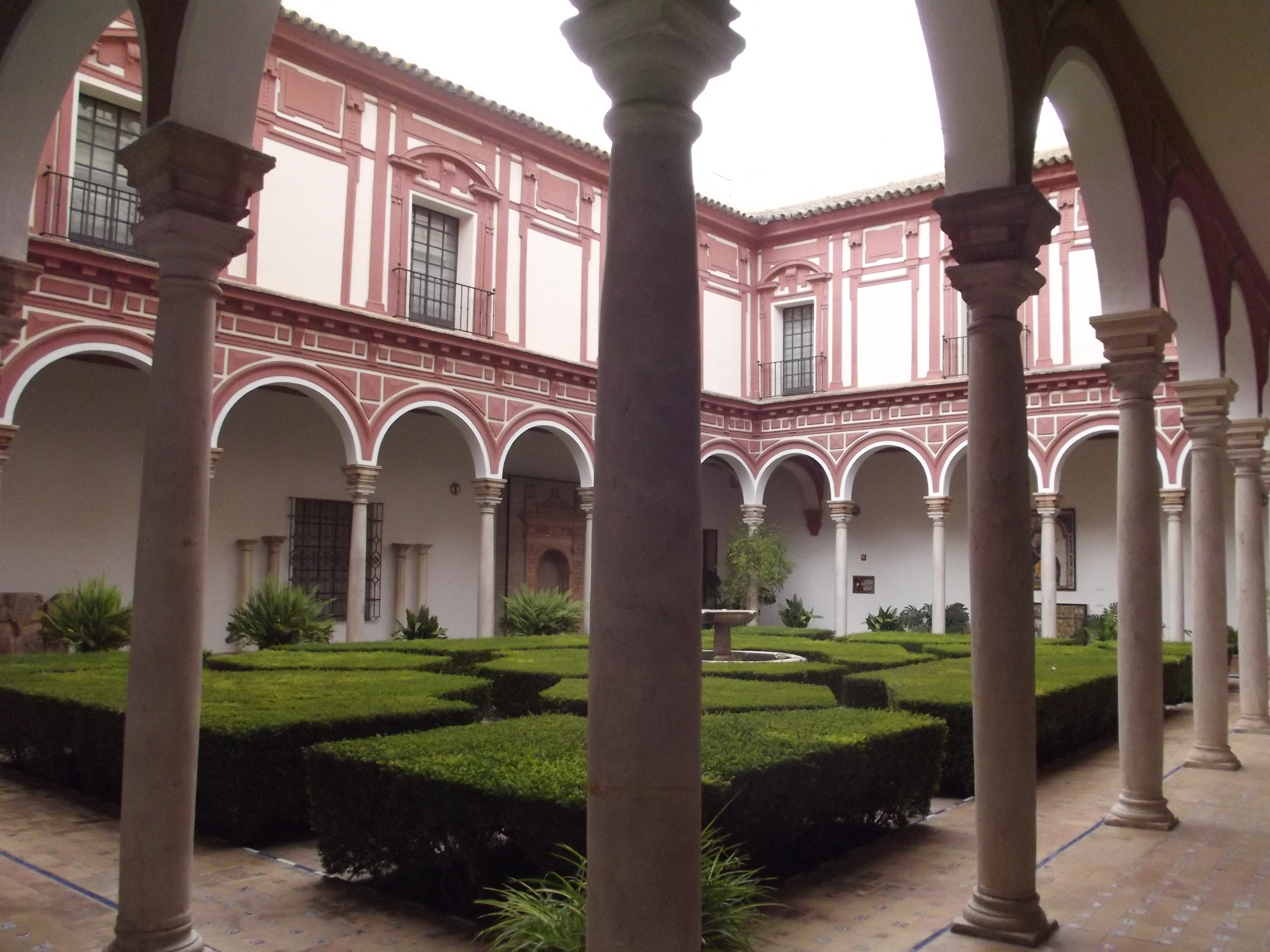 At the Museo de Bellas Artes in Plaza de Museo in Seville. The Museum of Fine Arts. It is off Calle Alfonso XII. The Museum of Fine Arts of Seville or Museo de Bellas Artes de Sevilla is a museum in Seville, Spain, a collection of mainly Spanish visual arts from the medieval period to the early 20th century, including a choice selection of works by artists from the so-called Golden Age of Sevillian painting during the 17th century, such as Murillo, Zurbarán, Francisco de Herrera the younger, and Valdés Leal. The building itself was built in 1594, but the museum was founded in 1839, after the desamortizacion or shuttering of religious monasteries and convents, collecting works from across the city and region. The building it is housed in was originally home to the convent of the Order of the Merced Calzada de la Asunción, founded by St. Peter Nolasco during the reign of King Ferdinand III of Castile. Extensive remodeling in the early 17th century was led by the architect Juan de Oviedo y de la Bandera. Courtyard gardens